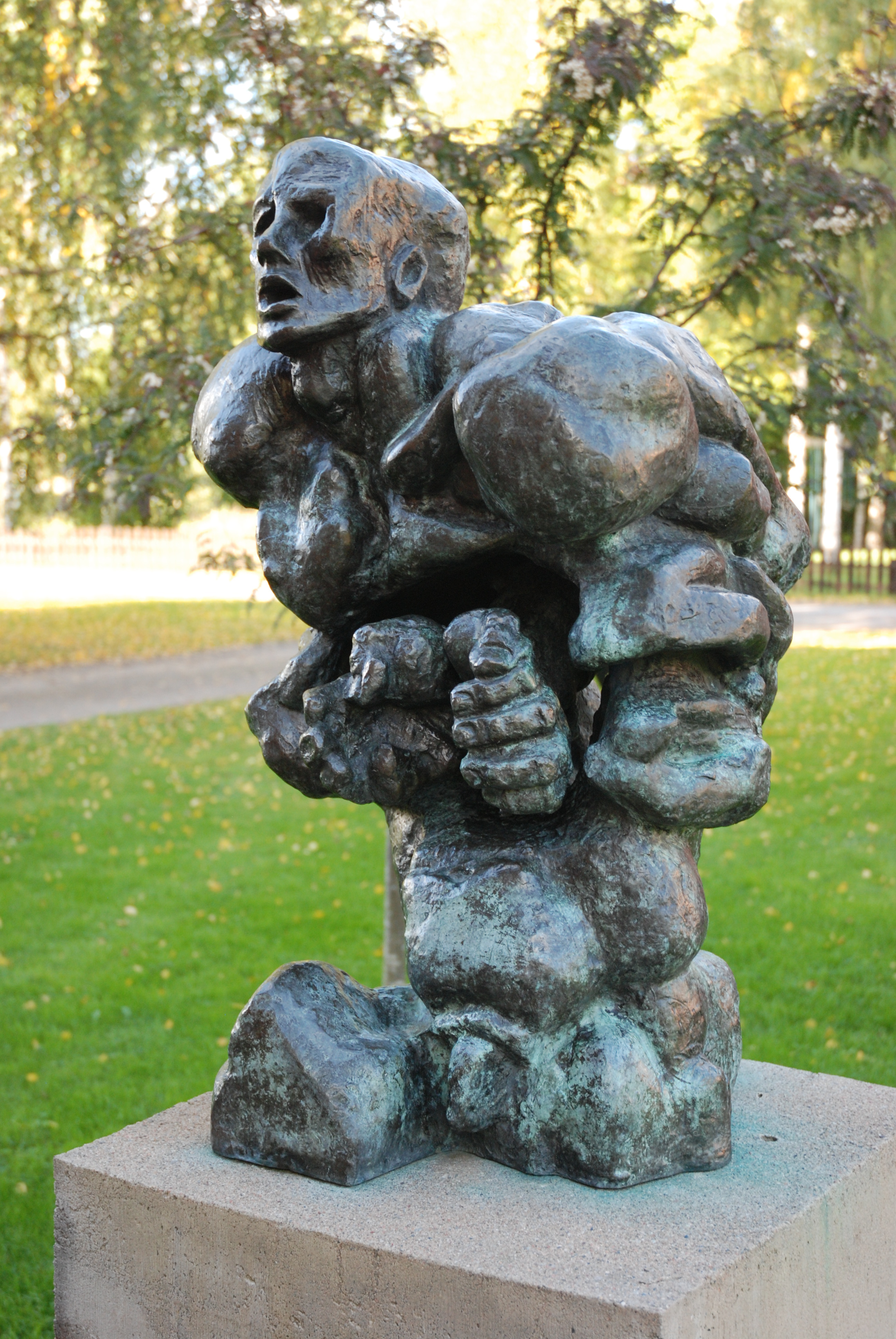 Ernst Neizvetzny's Profeten (The Prophet), Galleri Astley Sculpture Park, Uttersberg, Sweden